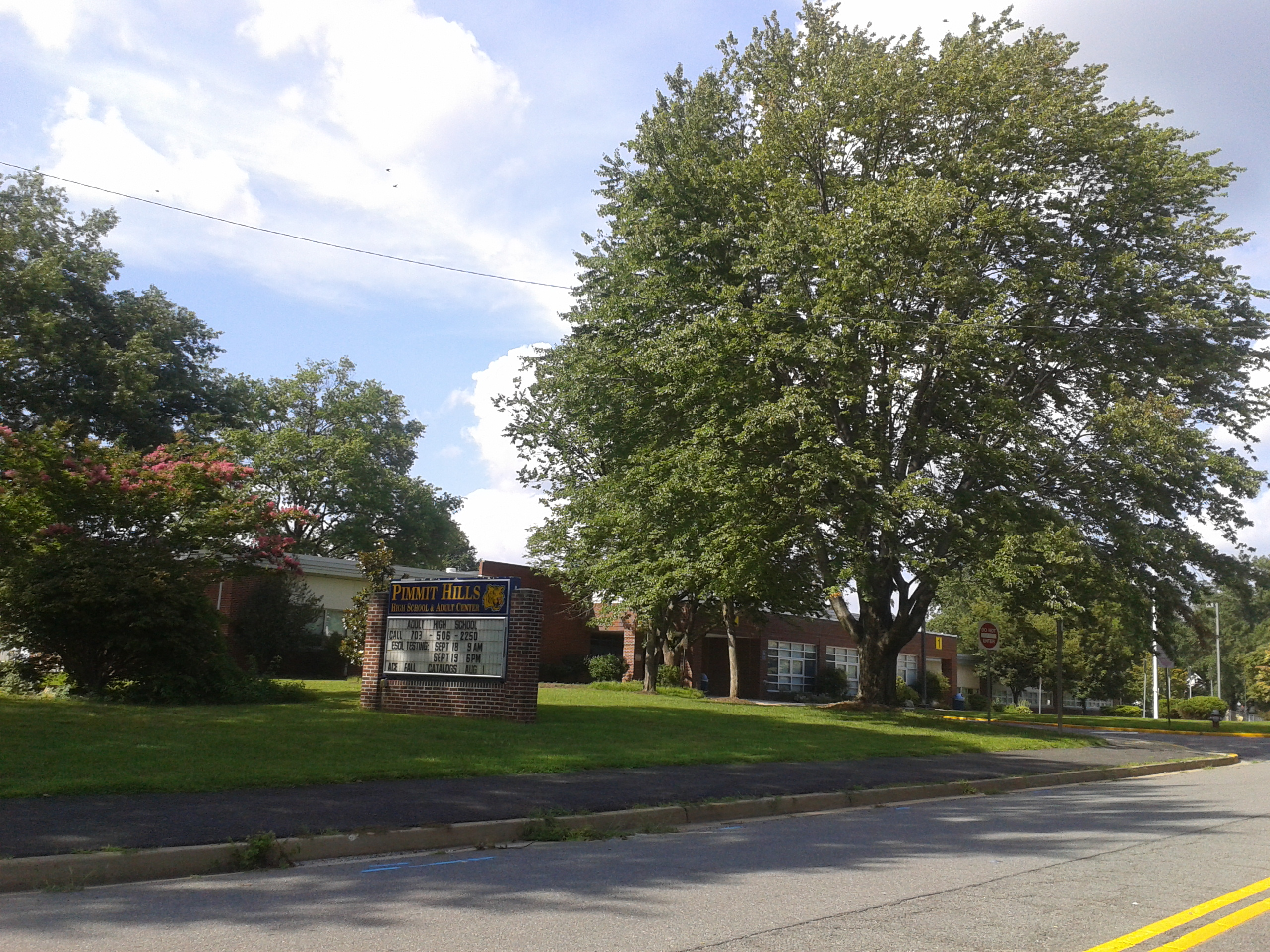 Pimmet Hills CDP, Fairfax County, Virginia